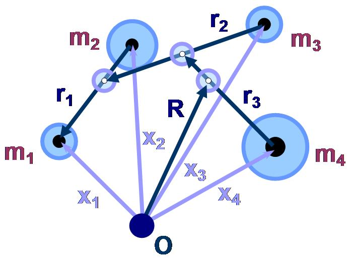 Jacobi coordinates for four bodies; see Cornille